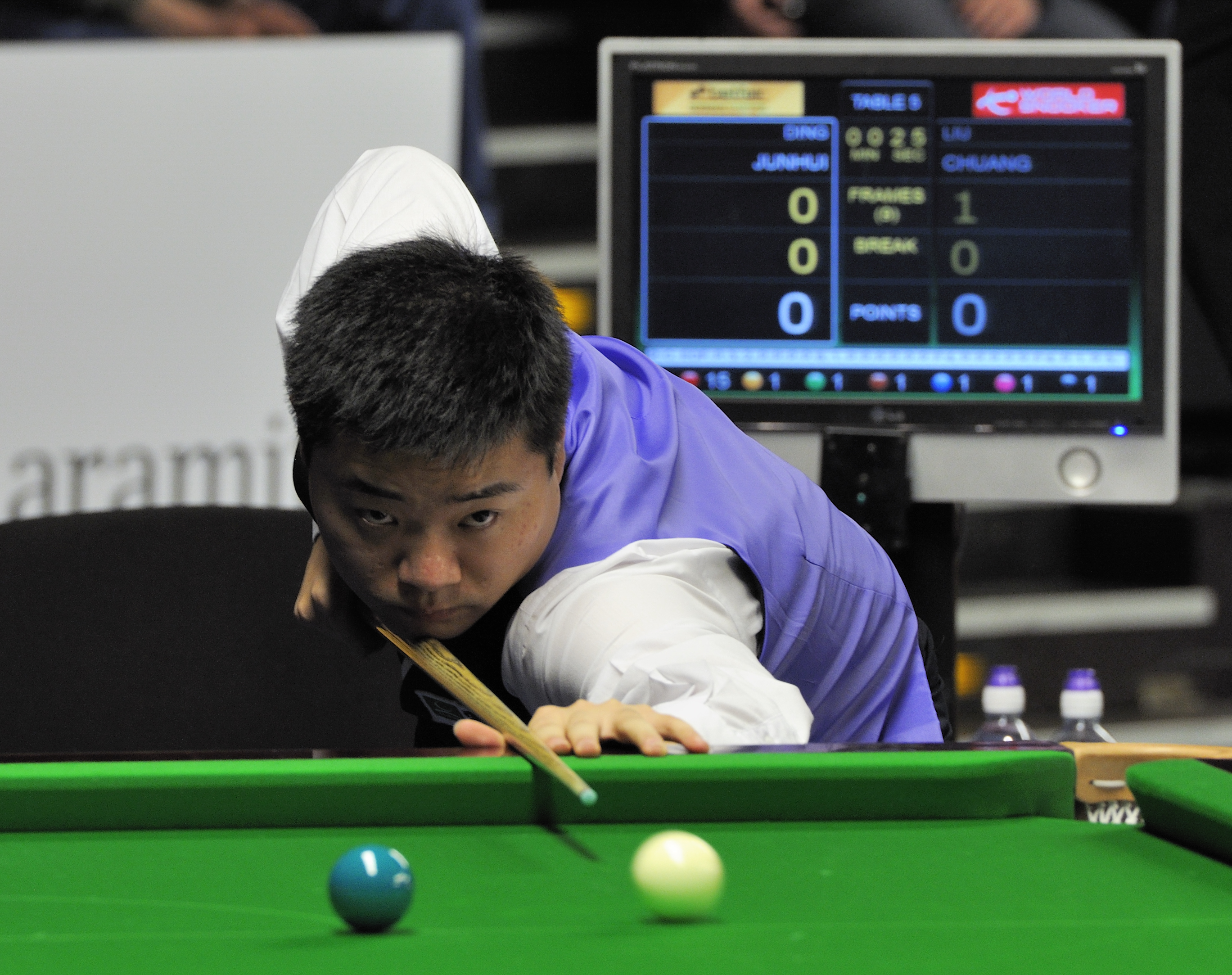 Picture taken in Berlin during the Snooker German Masters in 2013. Ding Junhui.